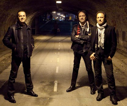 Dodi Battaglia, Red Canzian and Roby Facchinetti, members of the Pooh, Italian pop music band